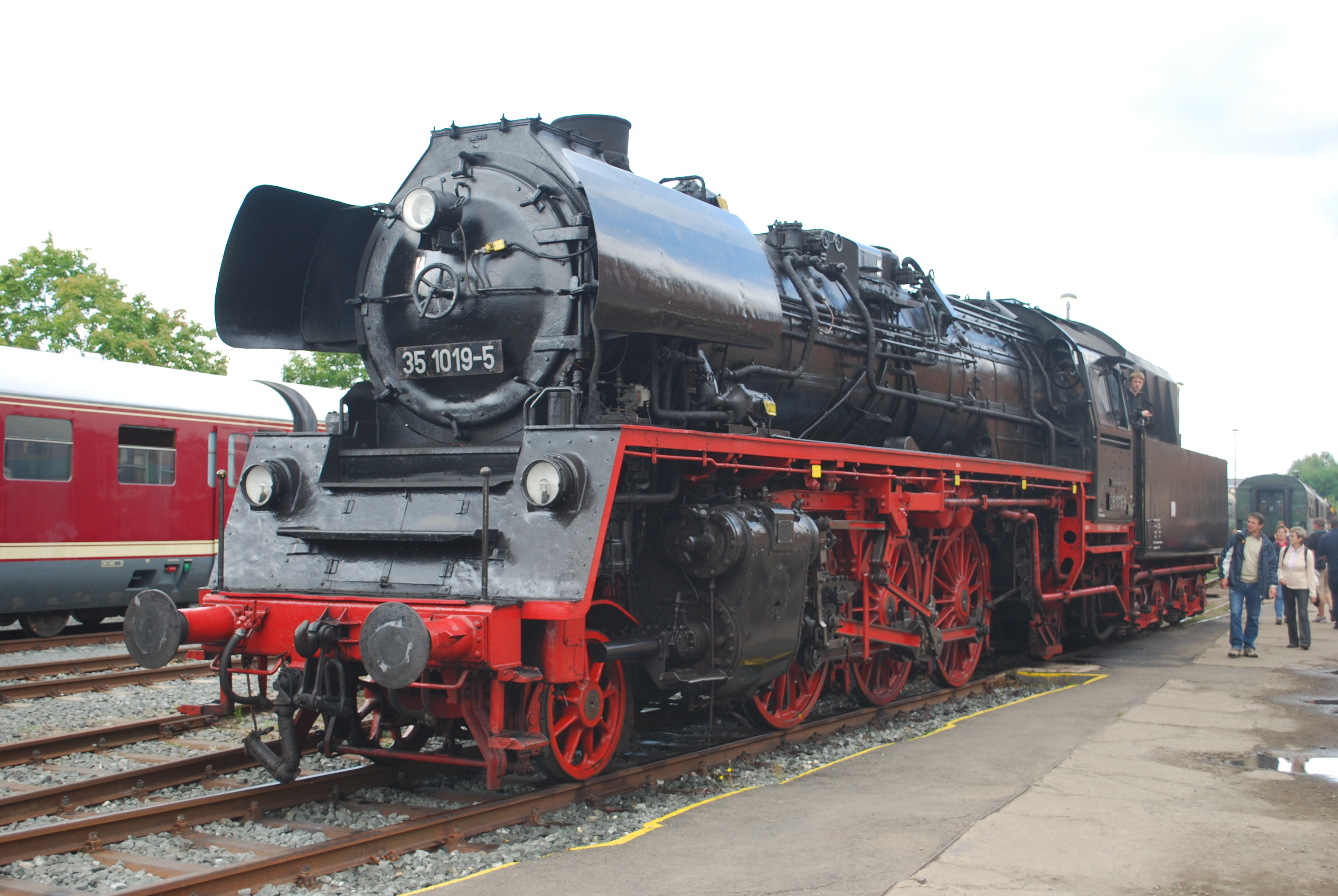 DR Class 35 (originally Class 23.10) 35 1019 (ex-23 1019) with 2'2'T28 tender at the Meiningen Steam Festival. 113 23.10's, baszed on the pre-war DRG/DRB Class 23, were built 1955-59. They were fitted with "Reko" high performance, all welded boilers with combustion chambers. The last was withdrawn in 1985.